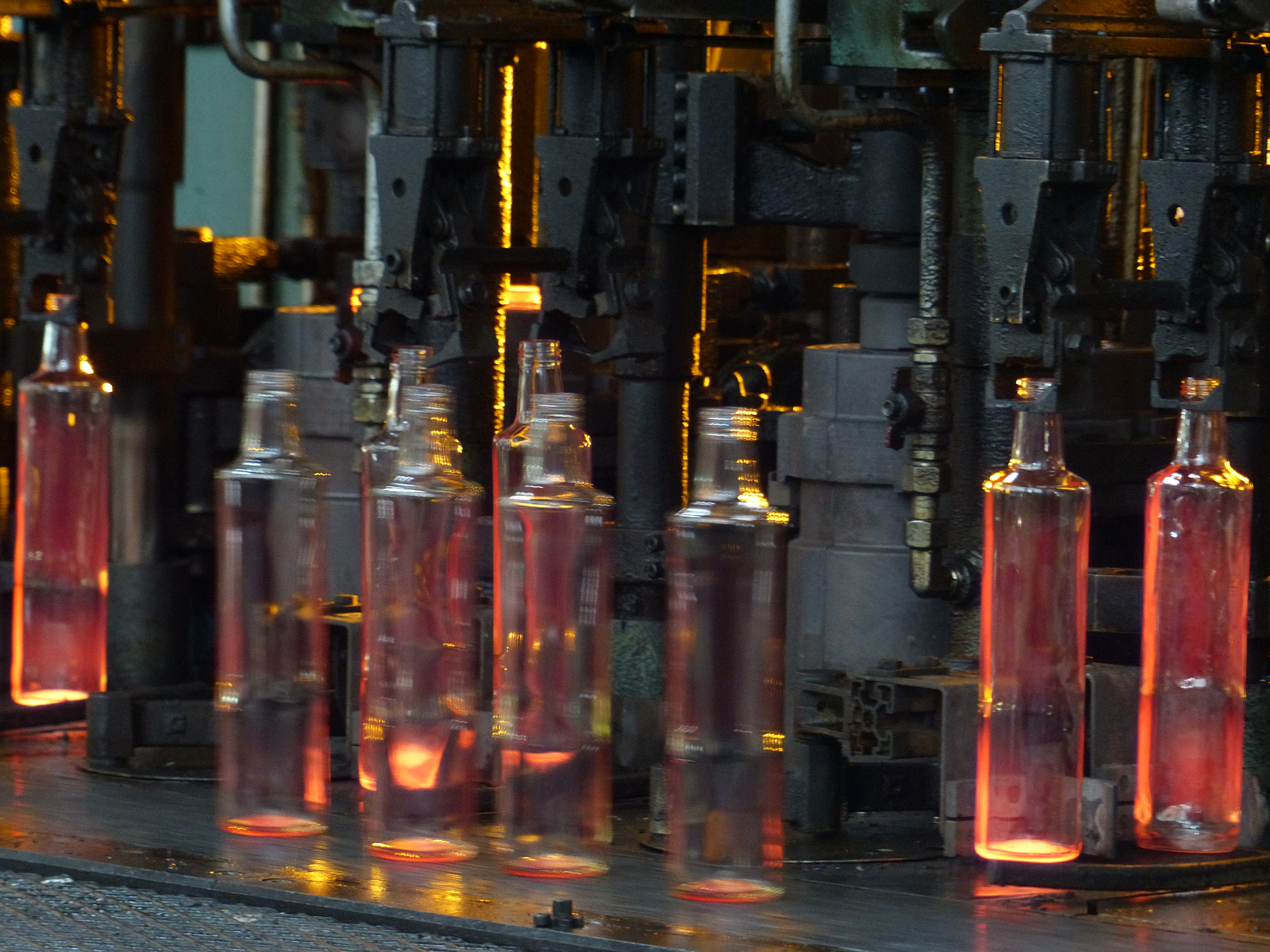 Glass factory in Dagestanskie Ogni, Russian Federaton